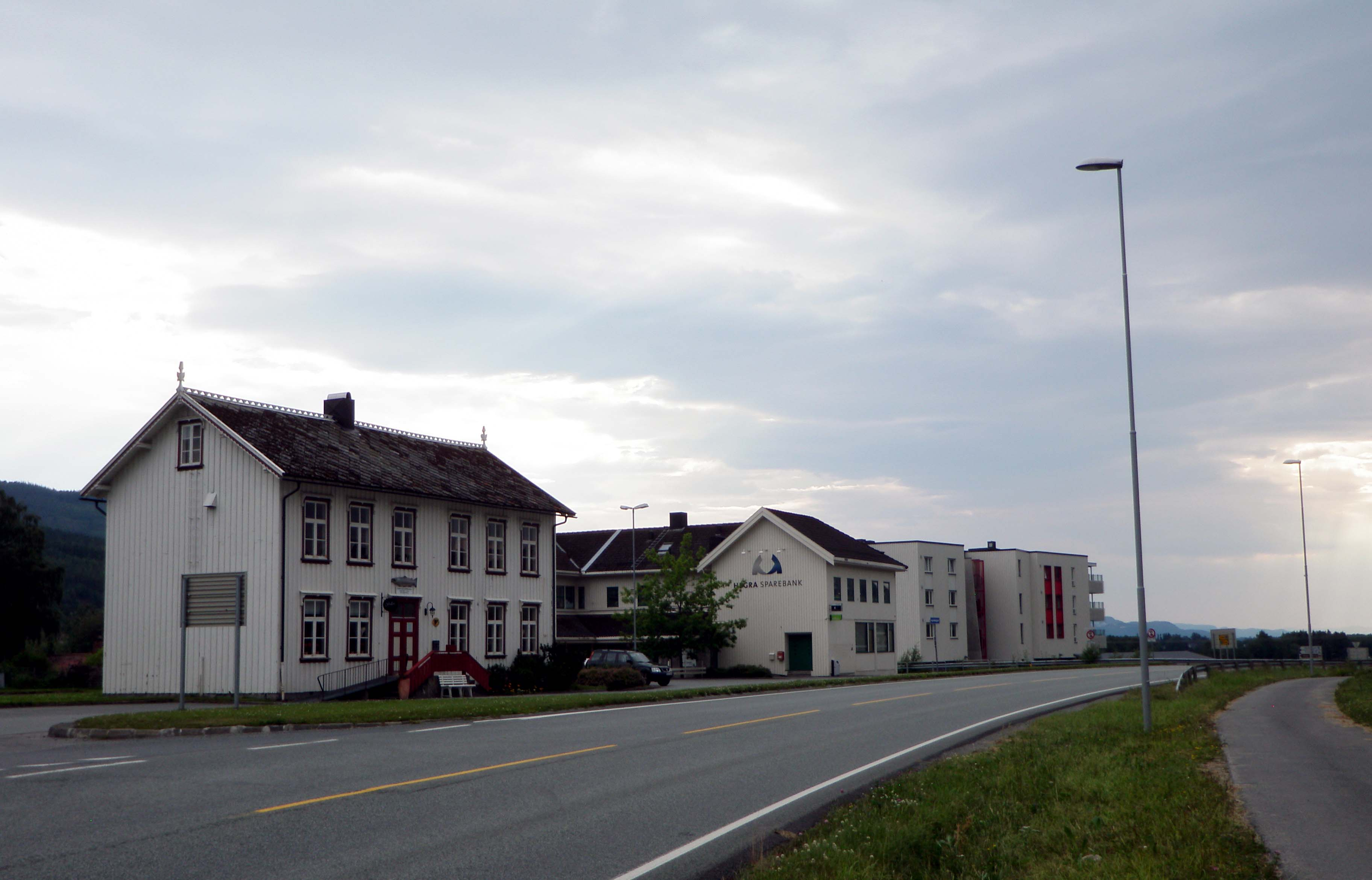 The centre of the village of Hegra, in Stjørdal, Norway, seen from European route E14. Seen in the photo is, from left to right: Hegra's combined school museum, arts and crafts museum and salmon museum; the bank Hegra Sparebank; residential complex.